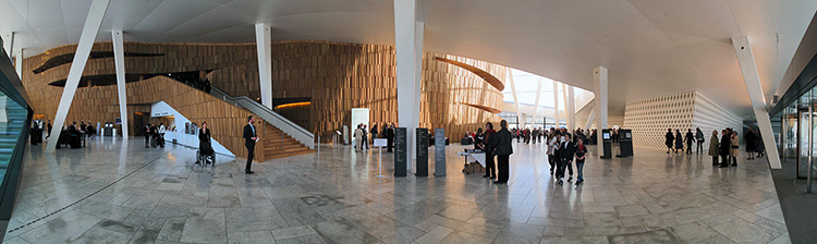 A 180 view of the interior of The Norwegian National Opera & Ballet